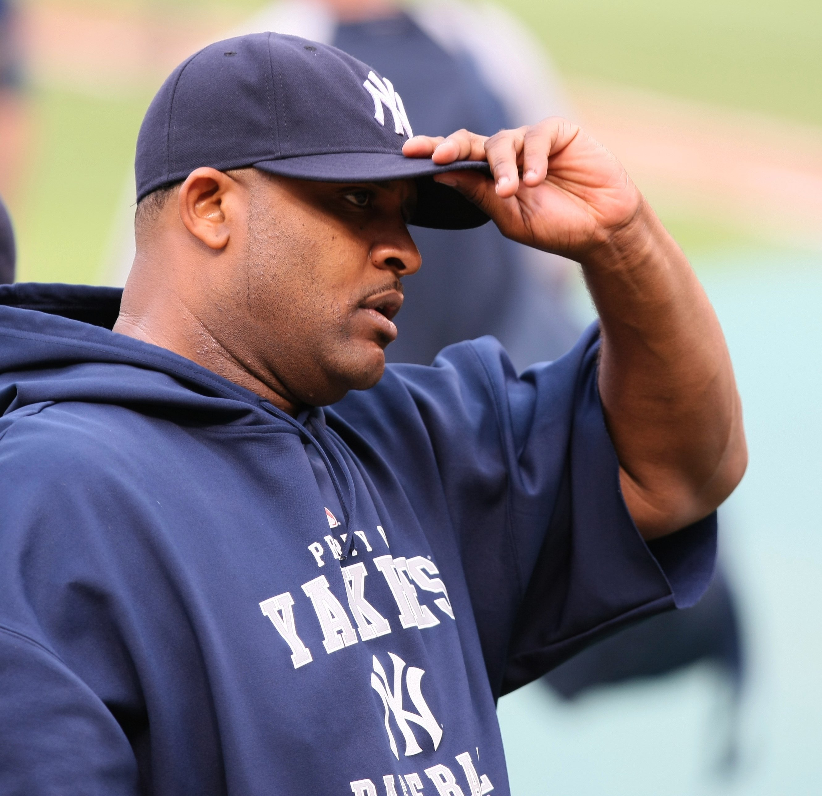 CC Sabathia